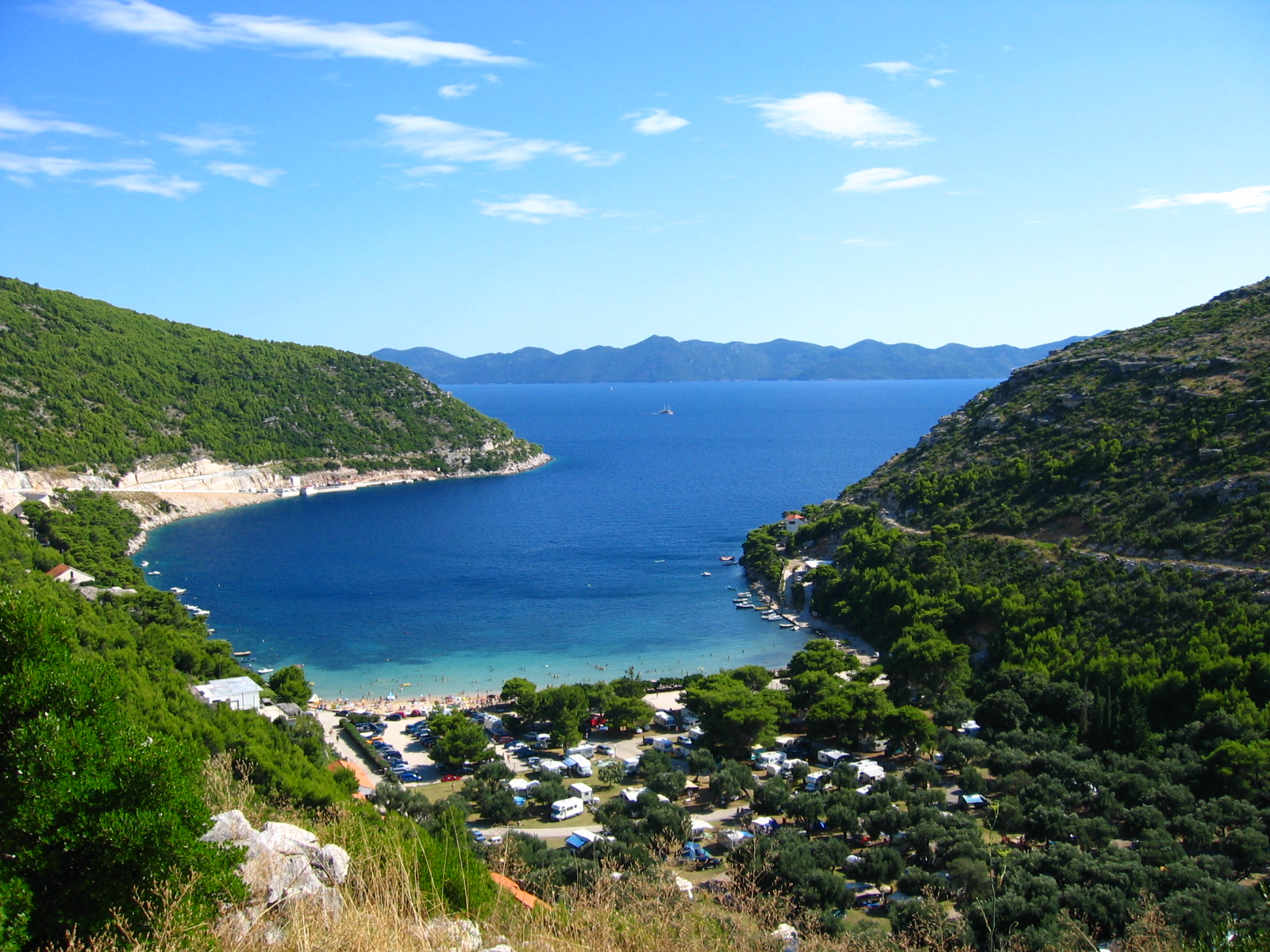 Prapratno camp settlement on the croatian Pelješac peninsula in Dalmatia.